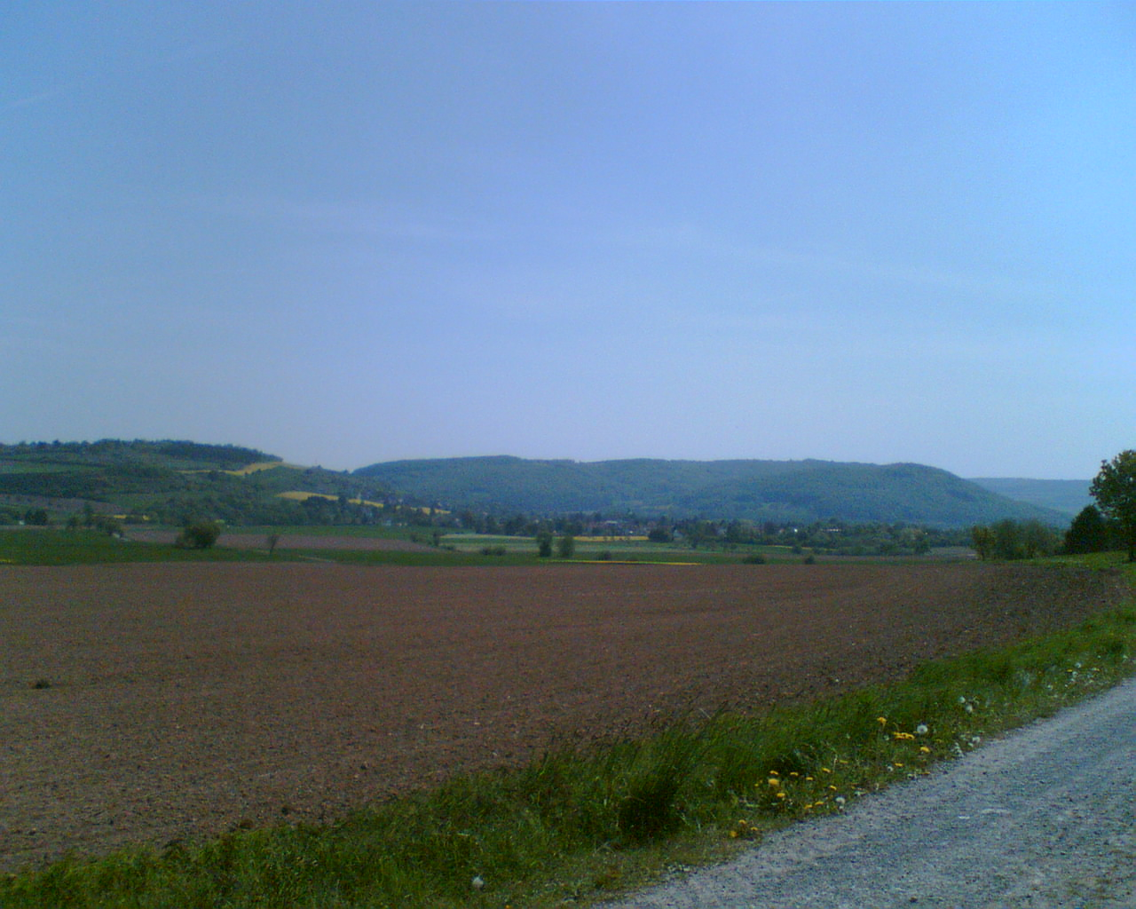 Last year we had a nice walk from Dassel to Mackensen and back to Dassel. Just a friendly reminder!